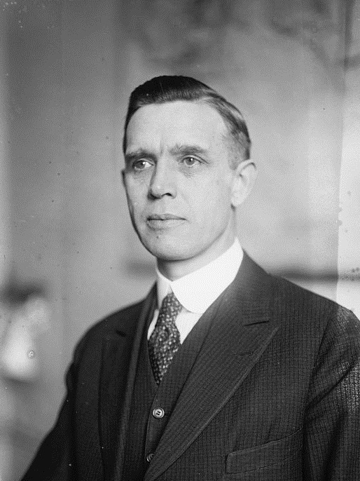 James T. Begg, congressman from Sandusky, Ohio.